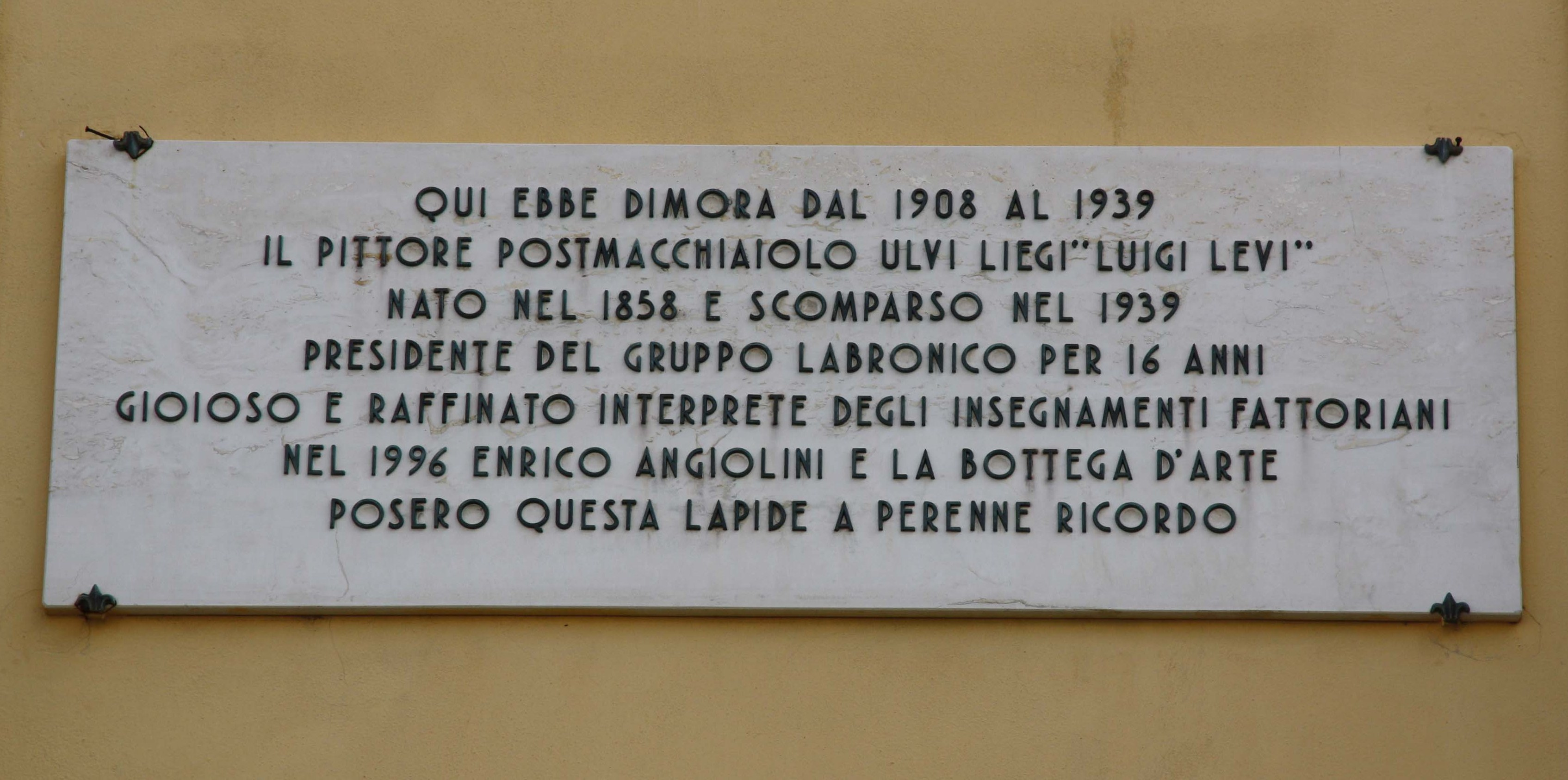 Italy, Livorno, Via Goldoni. The plaque placed to remember the house where lived and died the painter Ulvi Liegi.